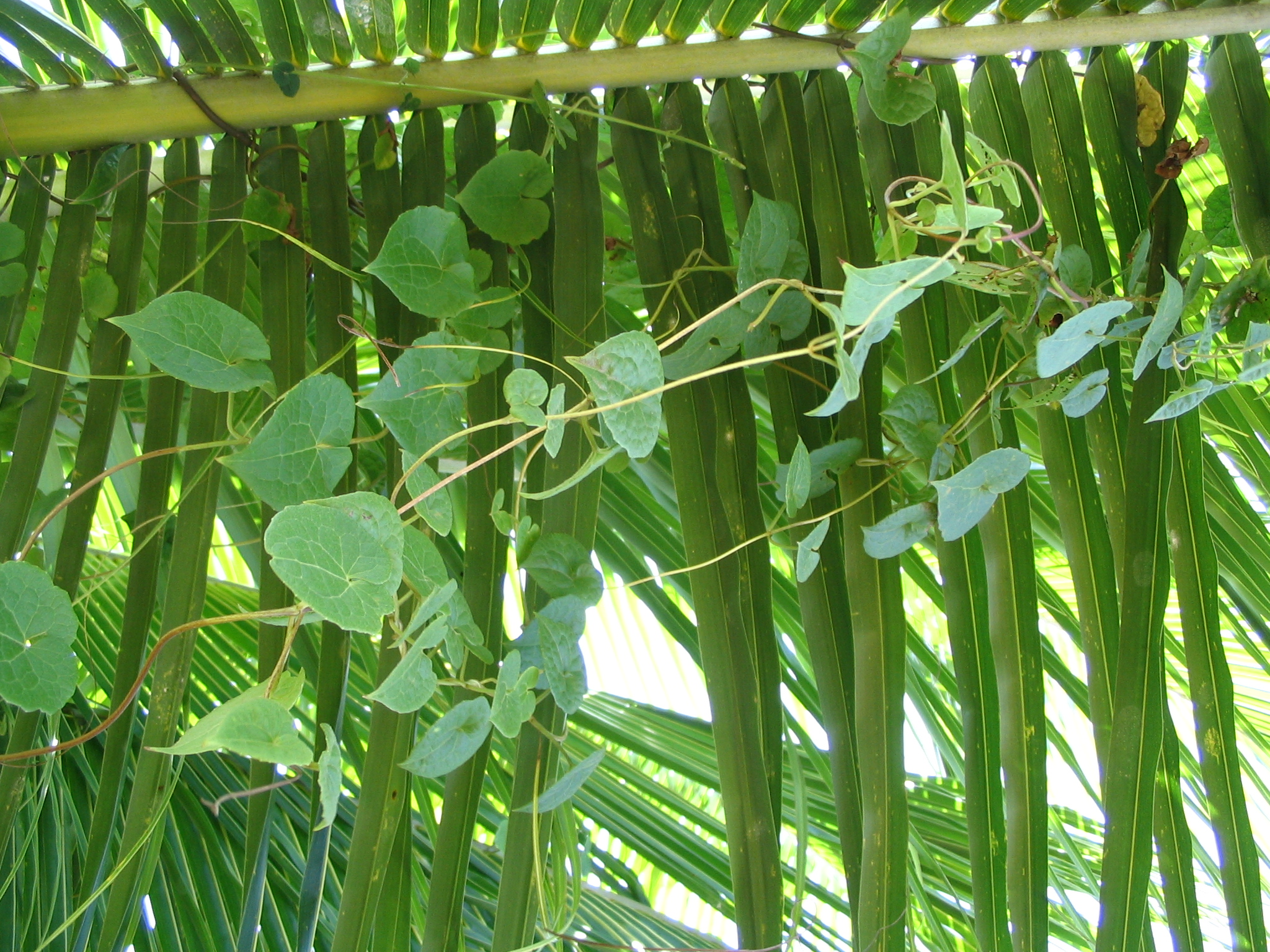 Vine on palm tree branch. Taken beside a lake in Kourou, French Guiana (Amazonia) on 7 November 2005. Photo taken by Arria Belli.